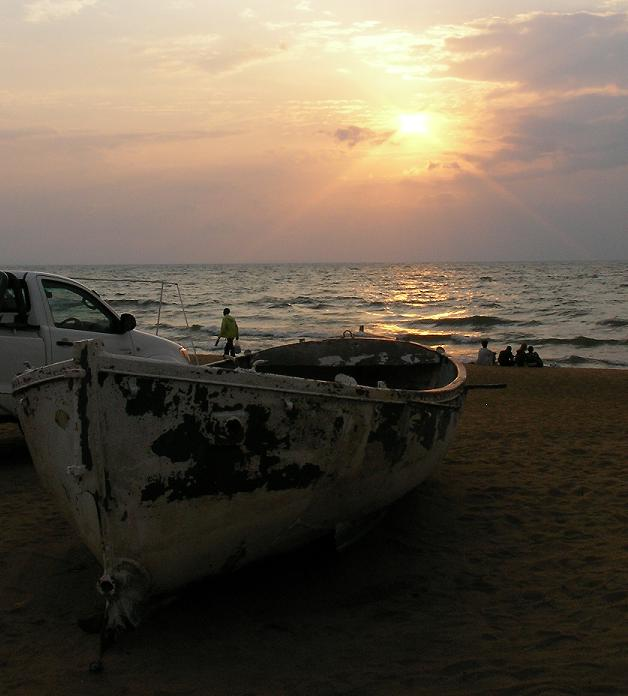 Sunrise at Senga Bay, during the Lake of Stars Festival 2008. Altimeter reading 479 meters